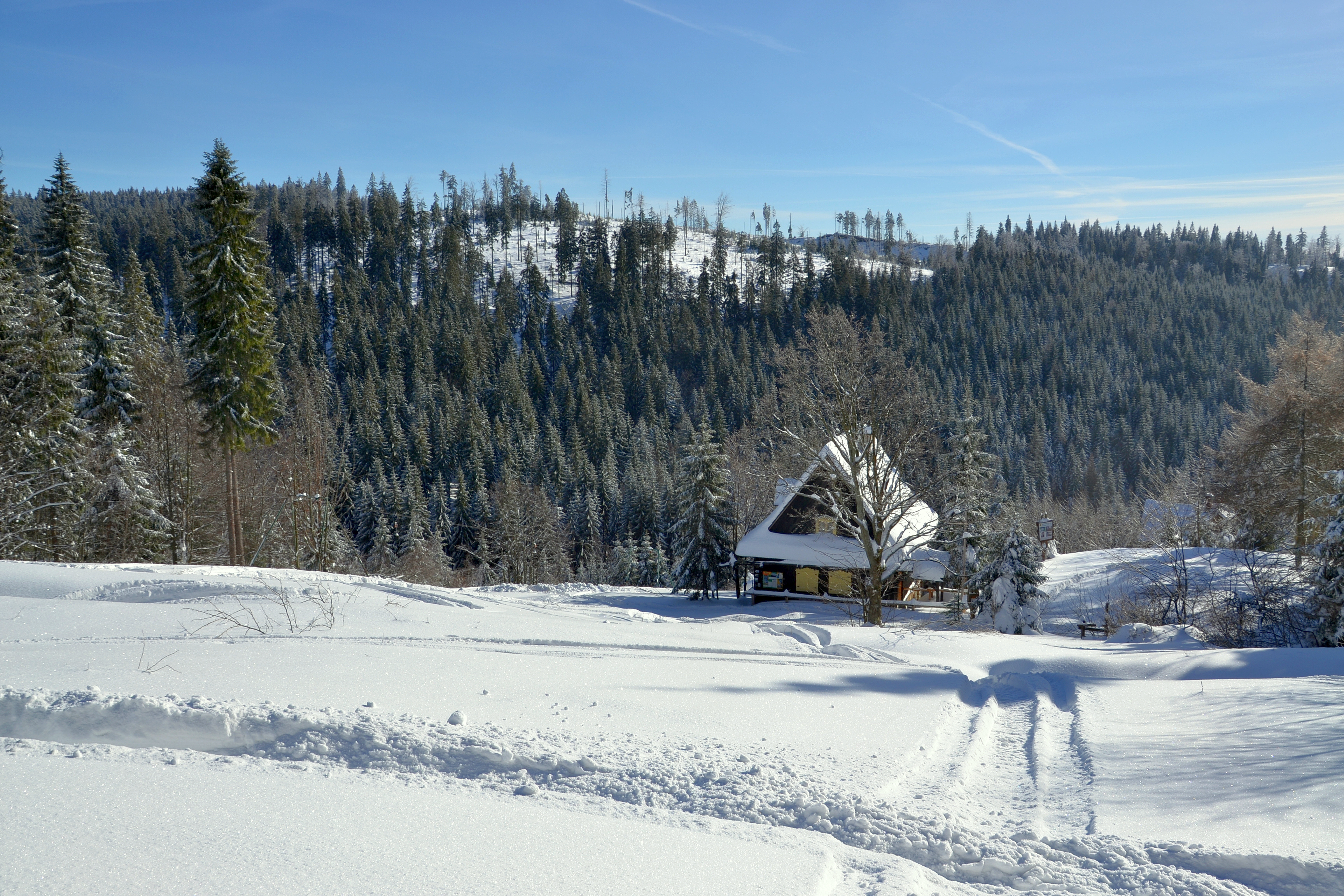 Silesian Beskids - Przysłop pod Baranią Górą in winter